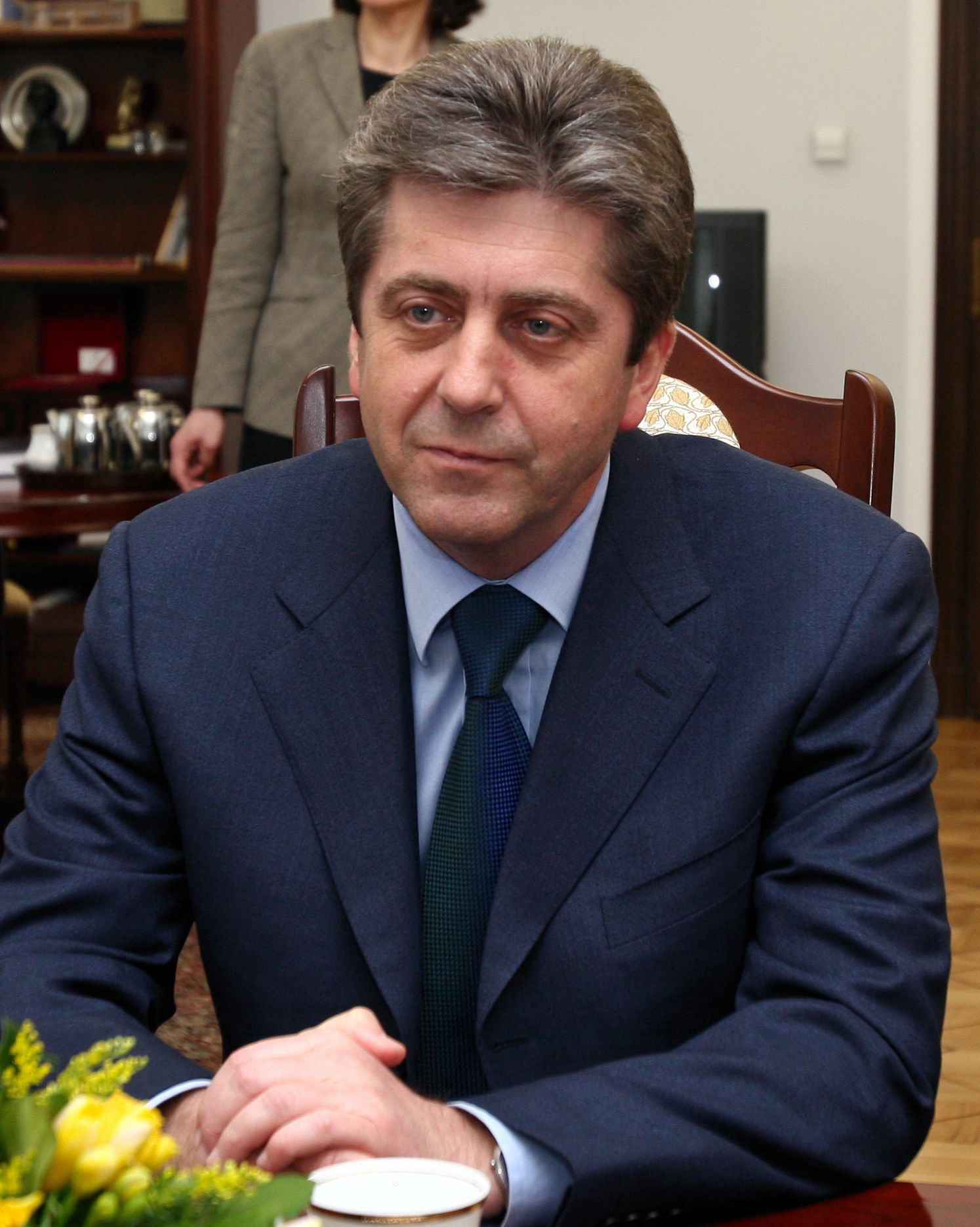 President of Bulgaria Georgi Parvanov in the Polish Senate